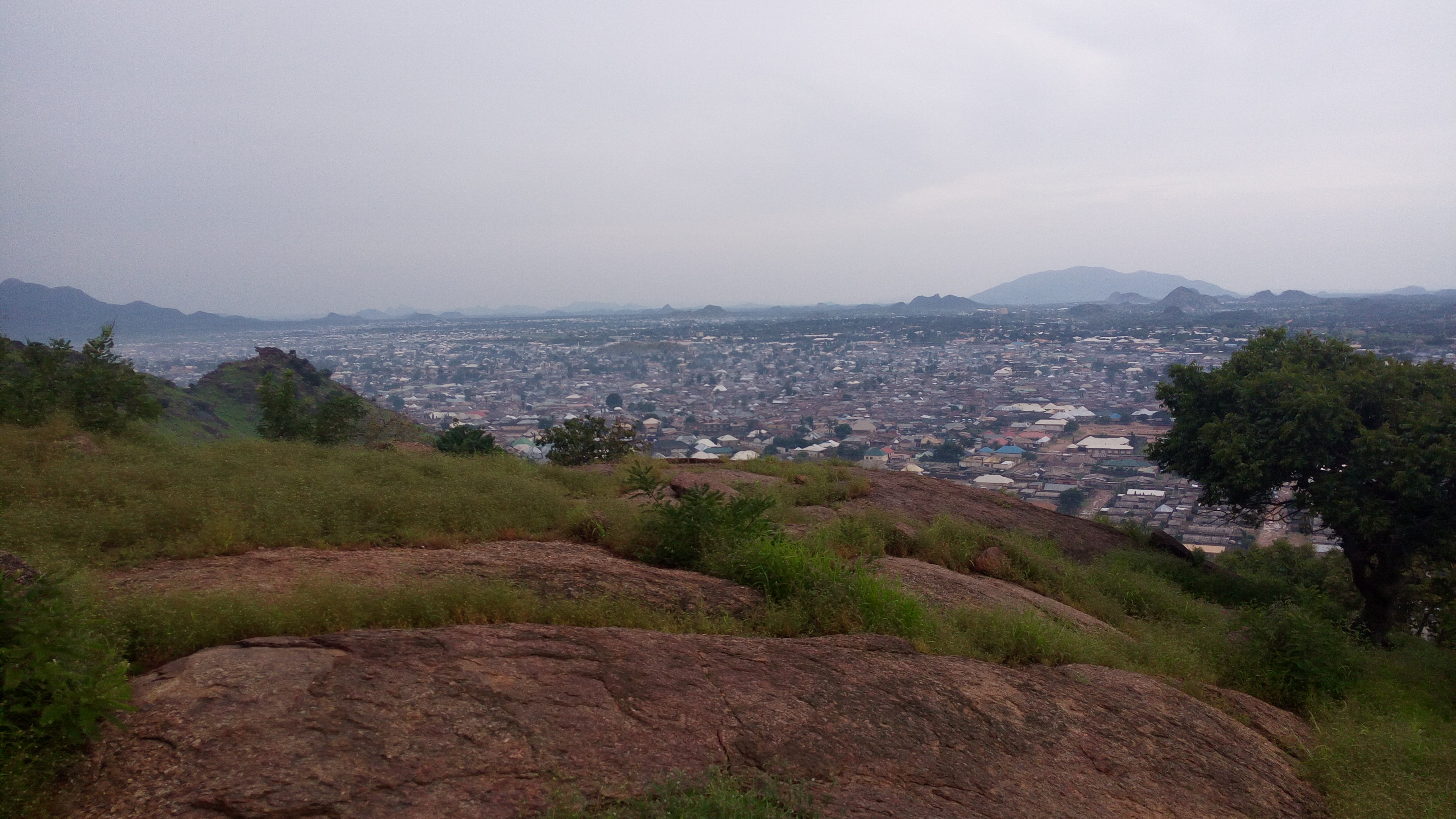 An angle Arial shot of bauchi capital from the ratawa hills